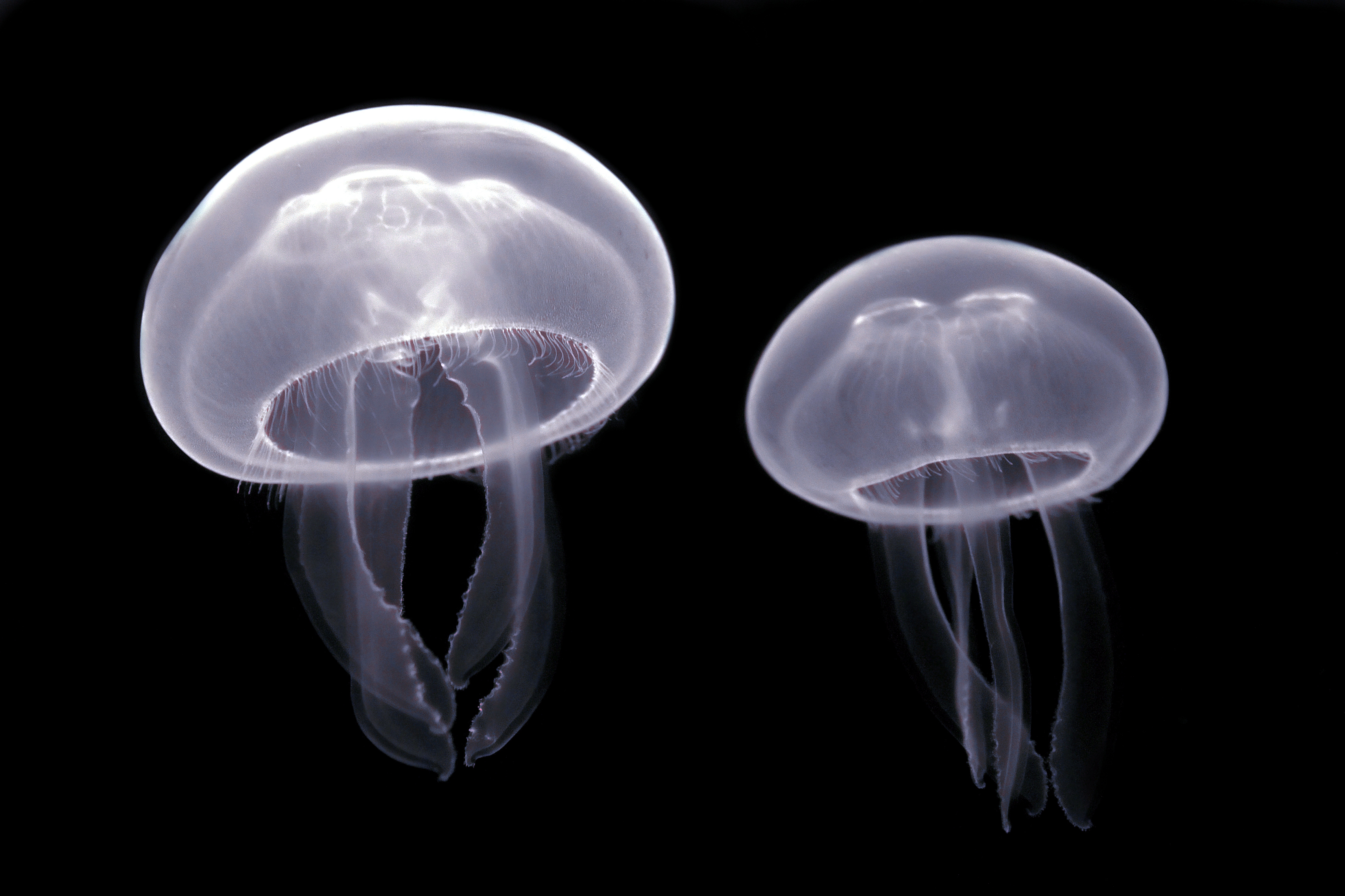 Moon jellyfish in the Pairi Daiza aquarium in Belgium.Because of the lighting, the organism in shown in false colour.